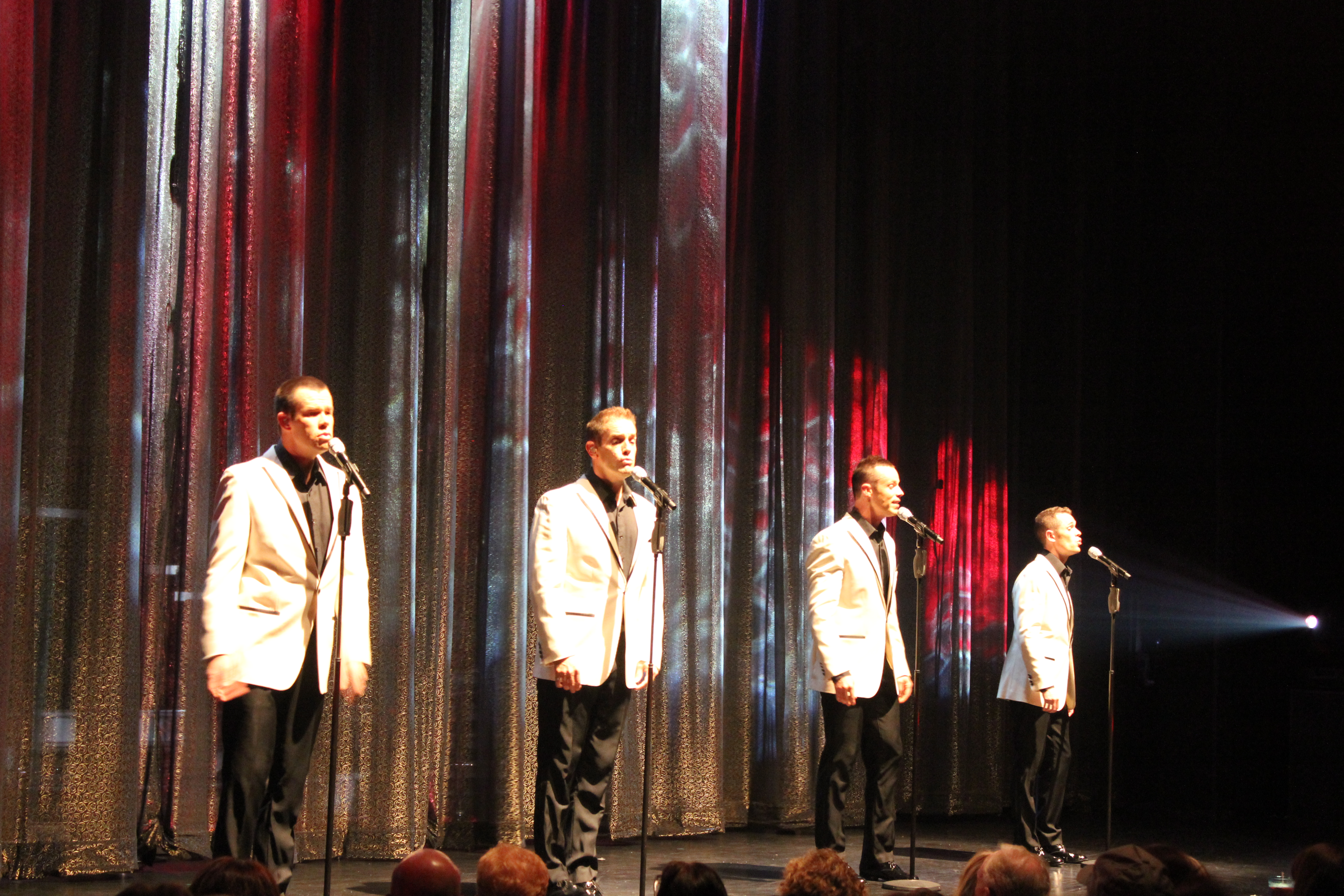 An Australian four-piece vocal group is performing